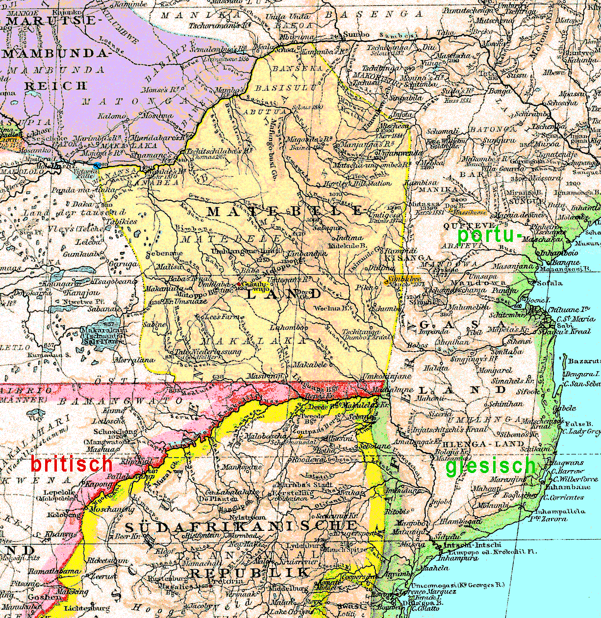 Matabele Kingdom in 1887. The scanned map was recoloured a bit without changing any original line.